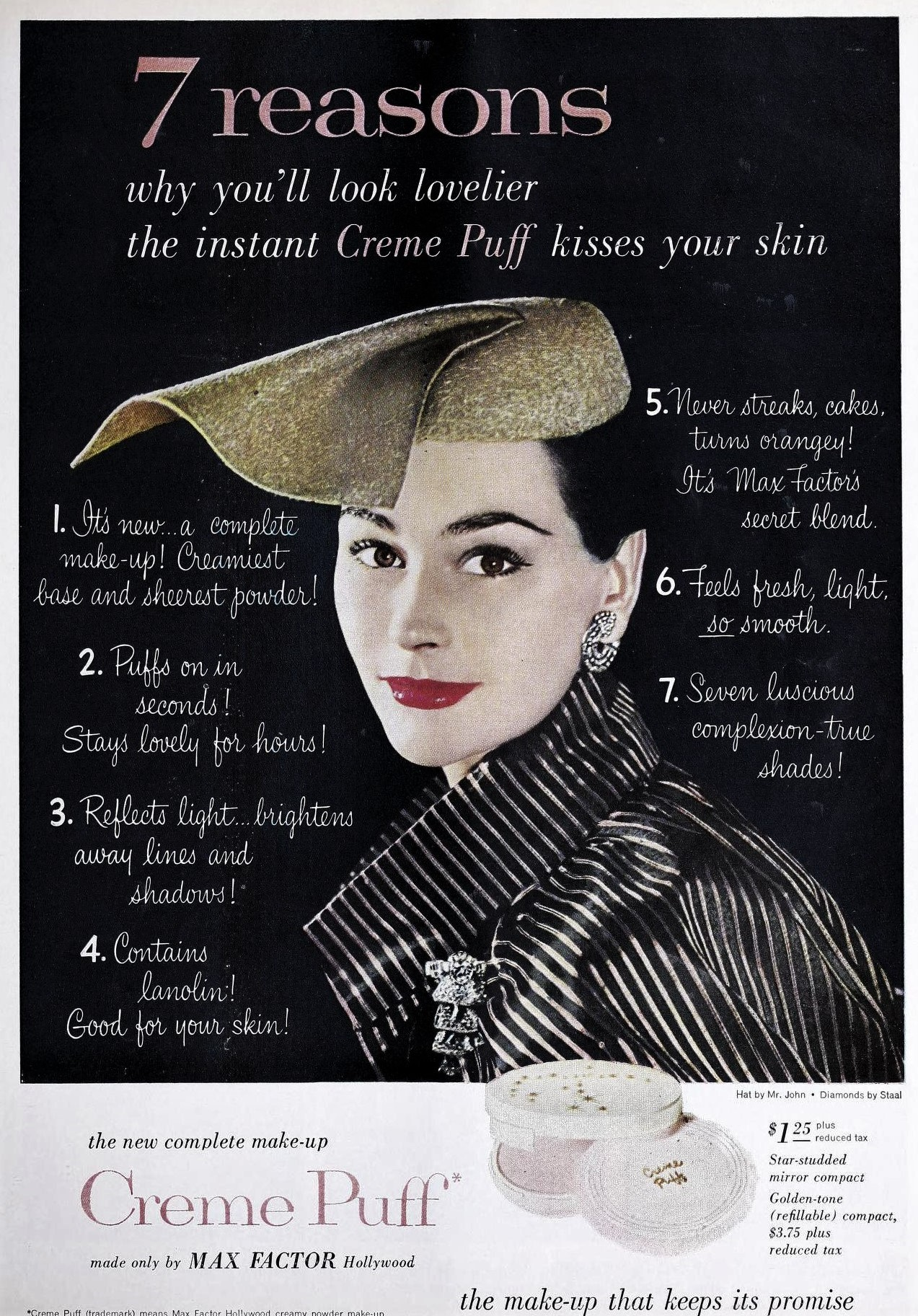 Creme Puff by Max Factor, 1954. Hat by Mr. John. Diamond by Staal